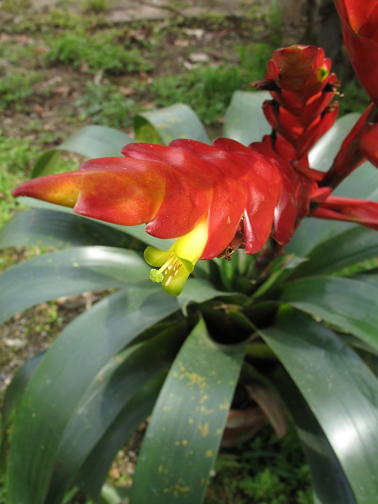 Vriesea oxapampae in cultivation at the Botanical Garden of Heidelberg, Germany.